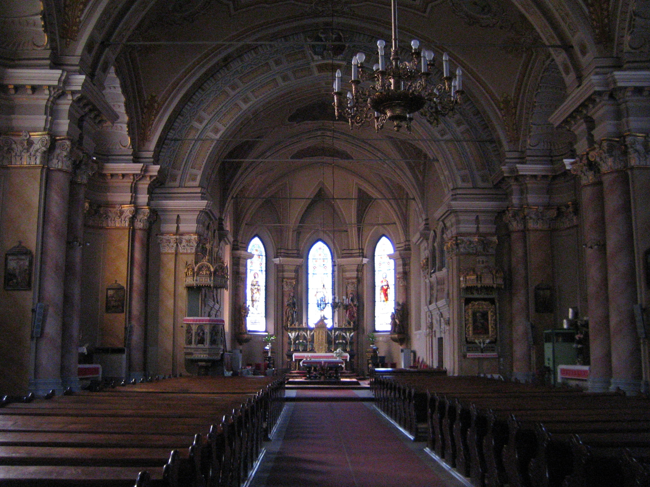 Interior view of the Saint Peter and Paul Catholic Church, Braşov.